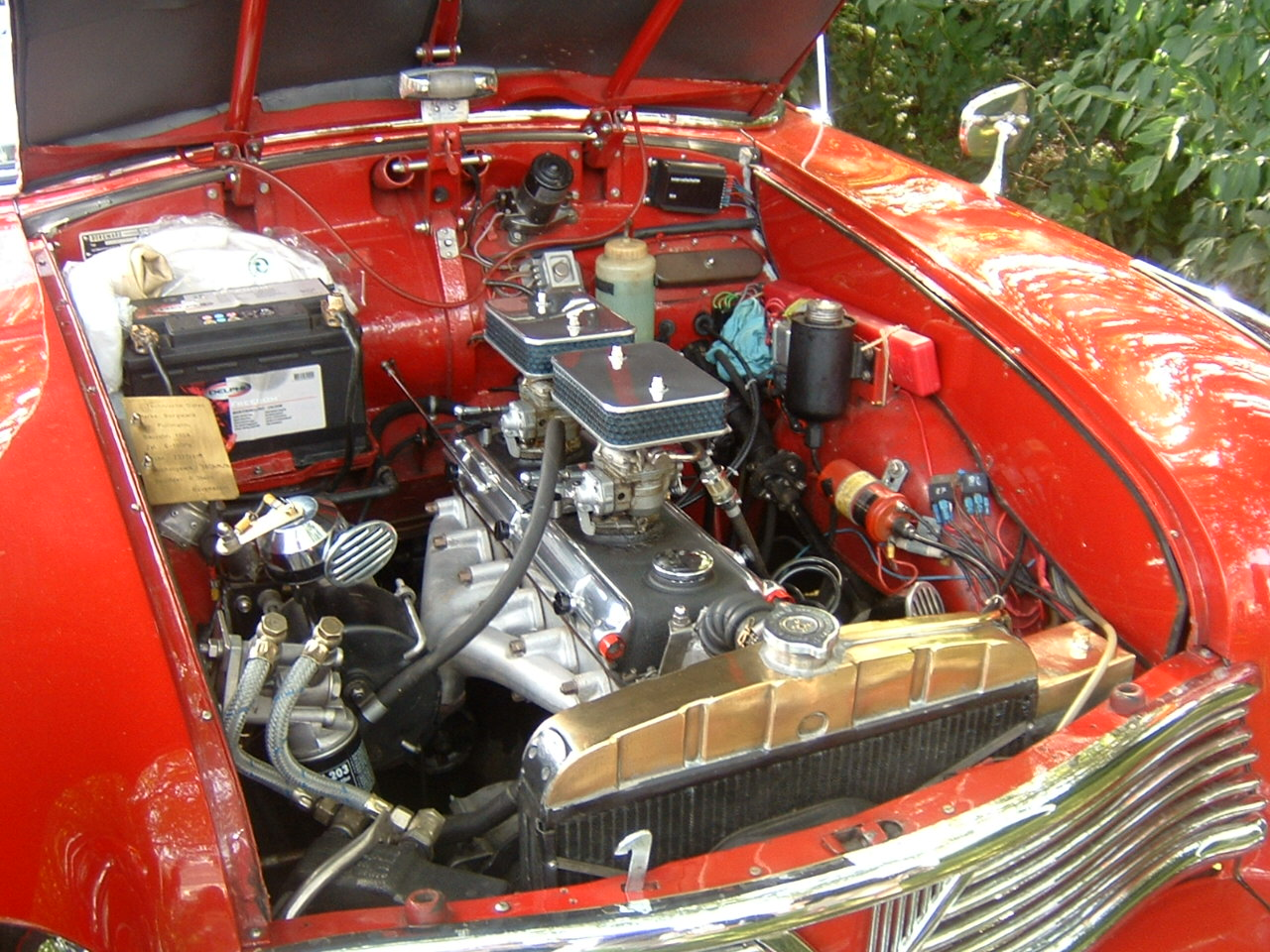 Borgward 6 cylinder four stroke motor. Borgward was a manufacturer in Bremen, Germany Quelle: eigenes Bild Daten: 2005 Autor: F.Lang